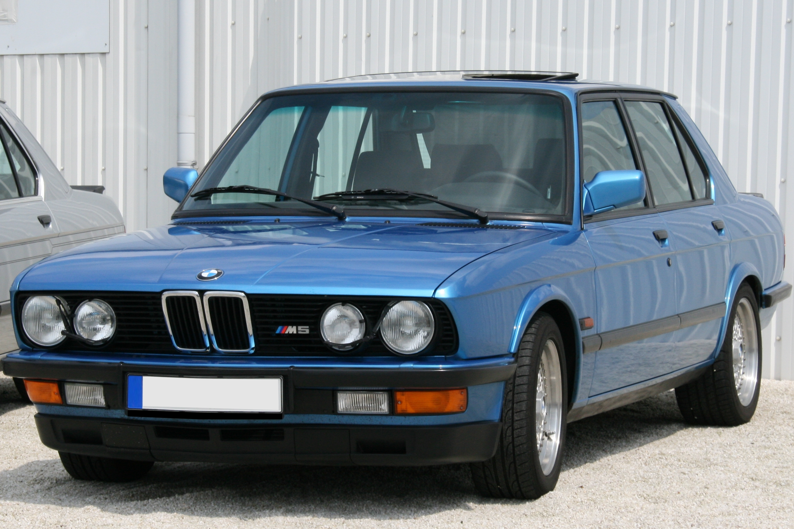 BMW M5 E28 Minervablue (Porsche)